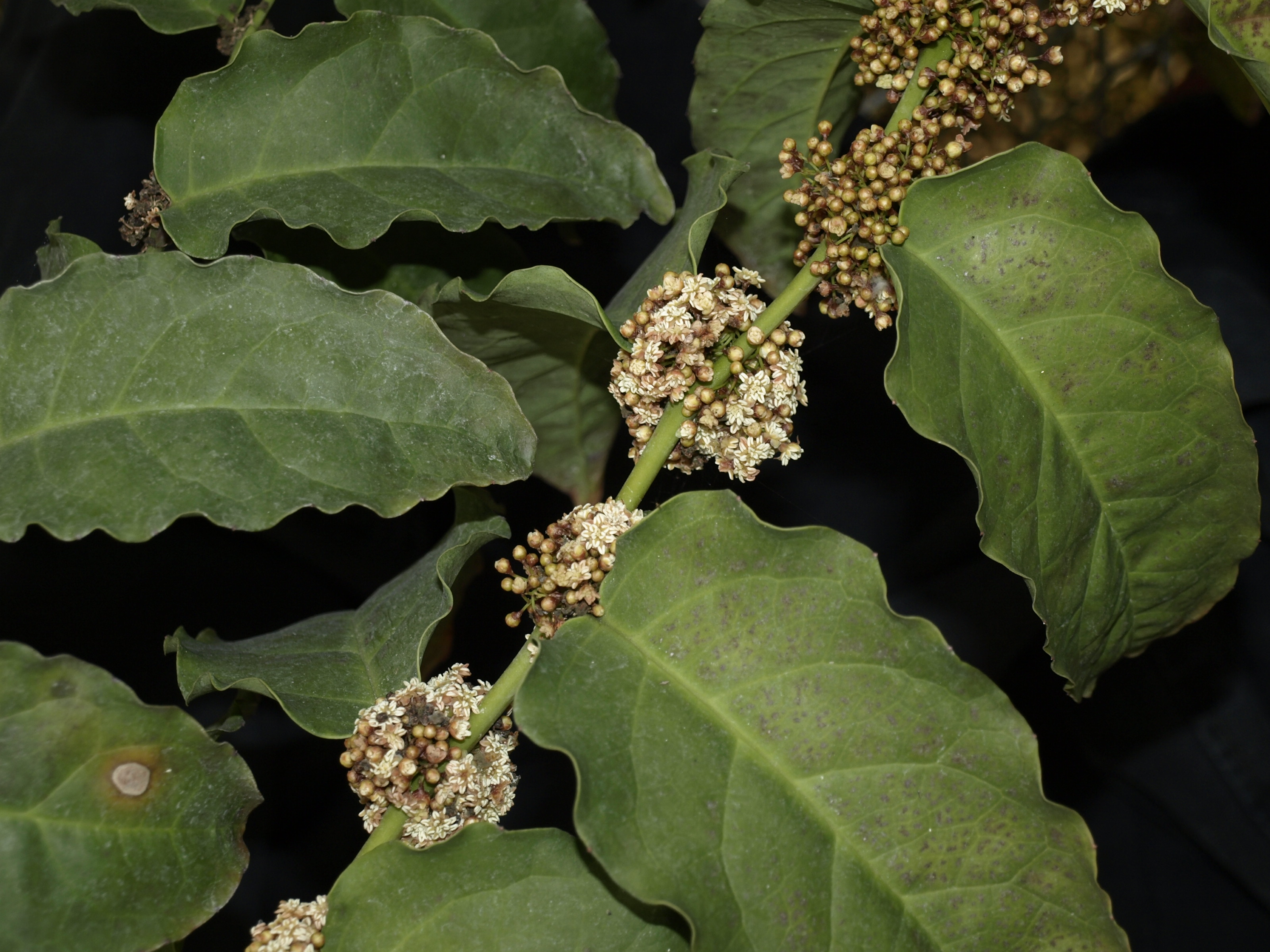 Biological Sciences greenhouse, Florida International University, Miami, FL, USA. male flowers.